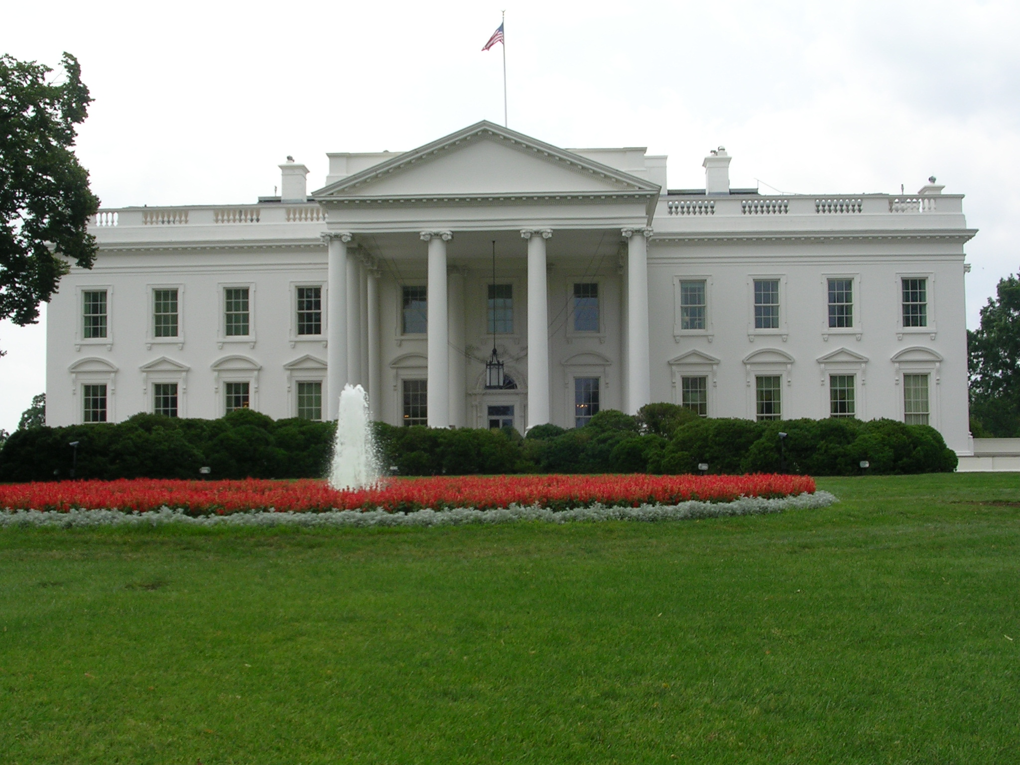 The United States White House